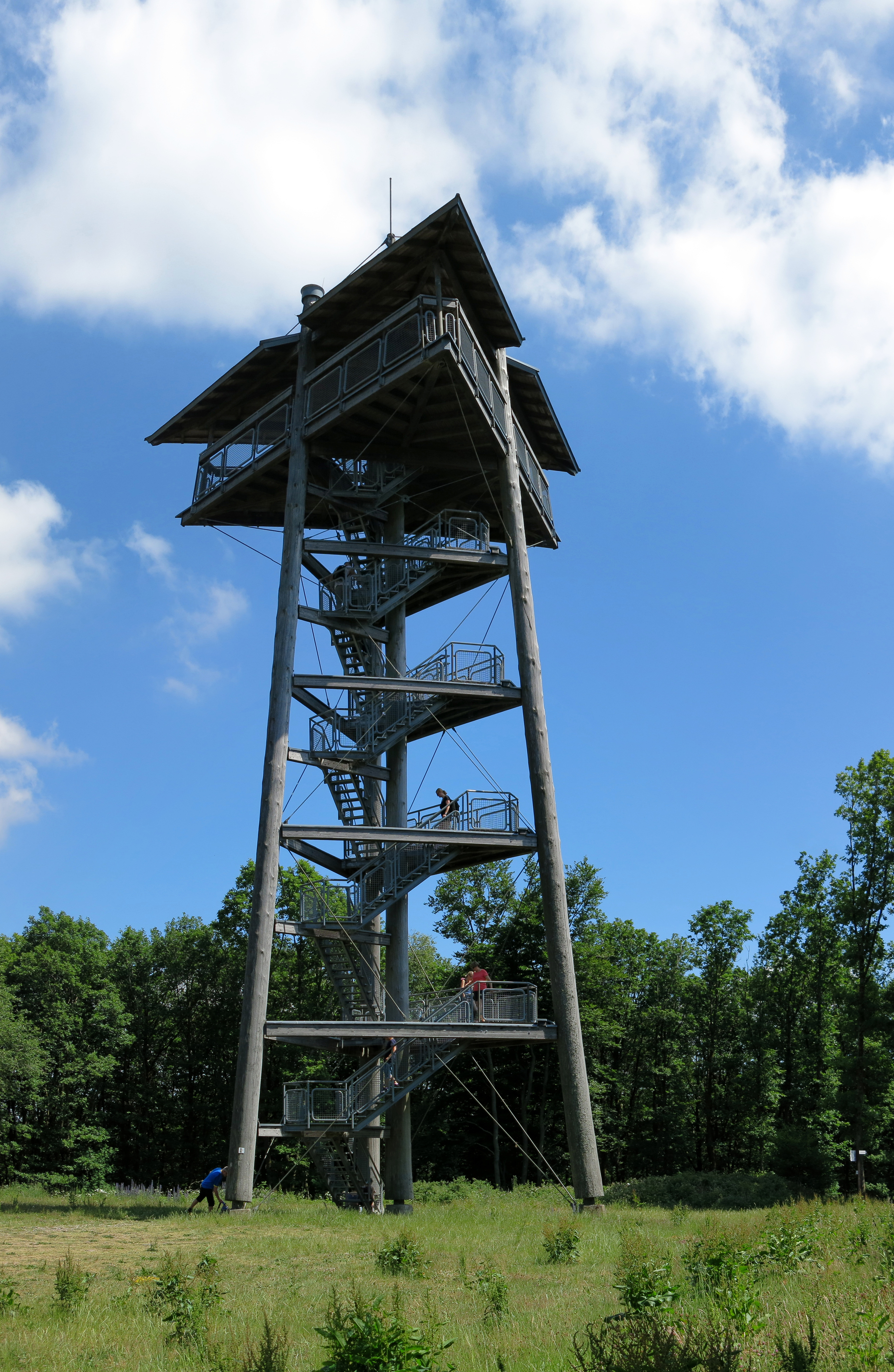 Lookout tower near Hattgenstein in the Hunsrück range.